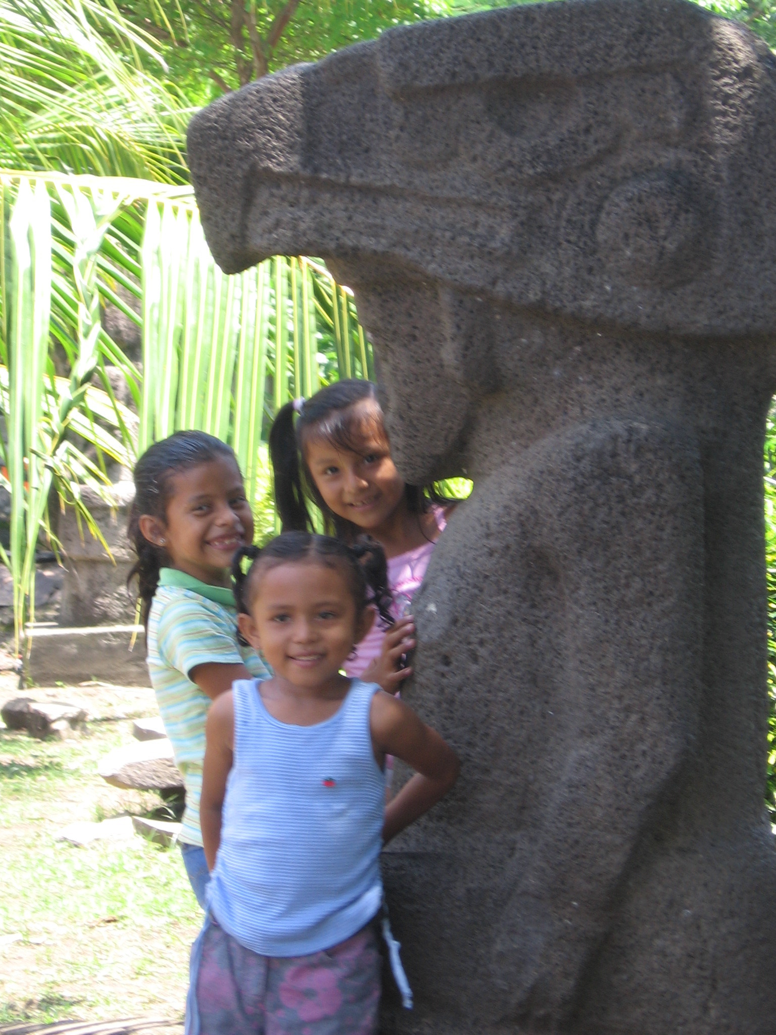 Ancient statue in Ometepe island, Nicargua